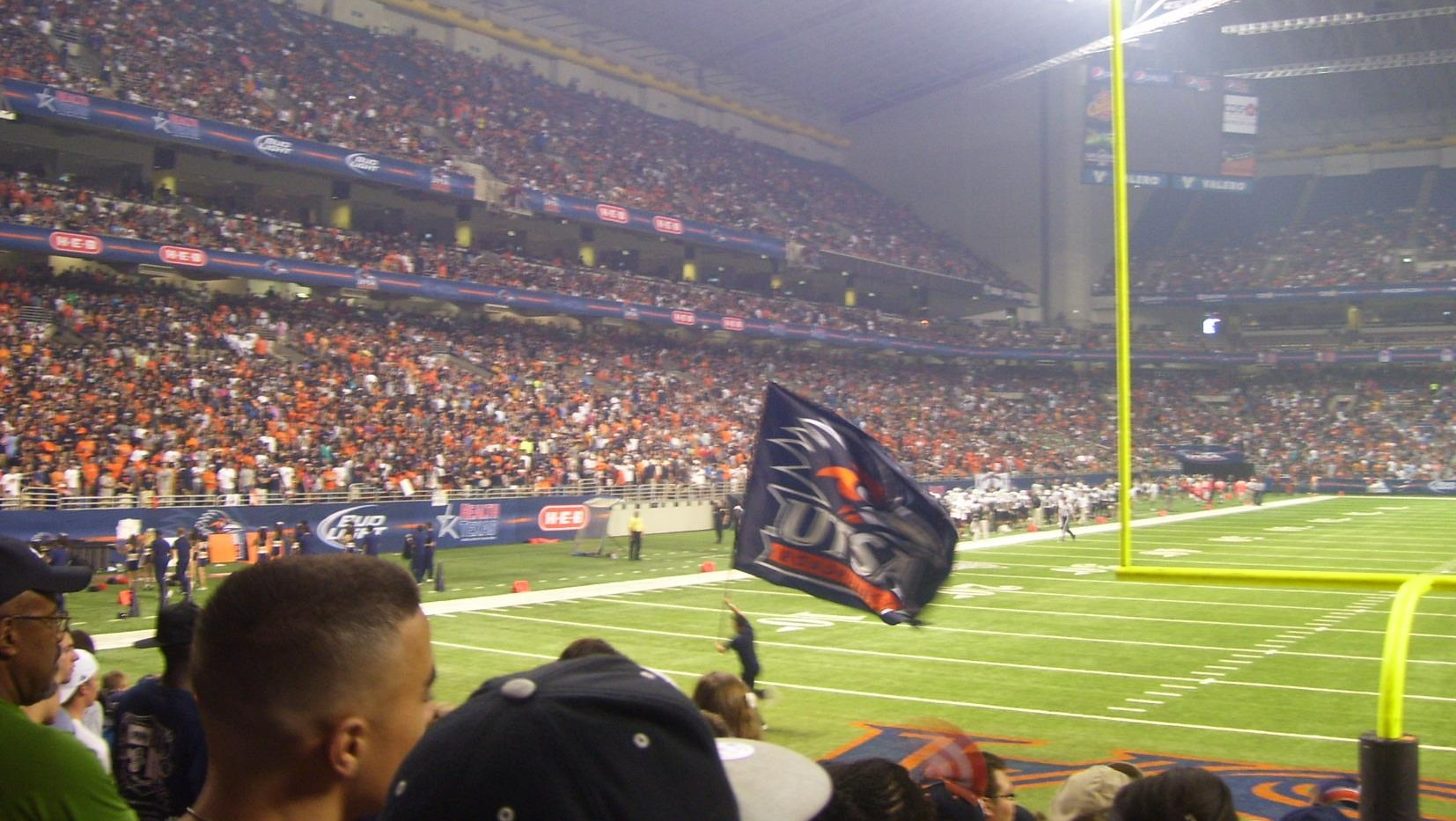 56,743 fans pack into the Alamodome to witness UTSA's inaugural football game.